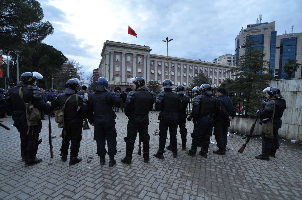 At demostrations